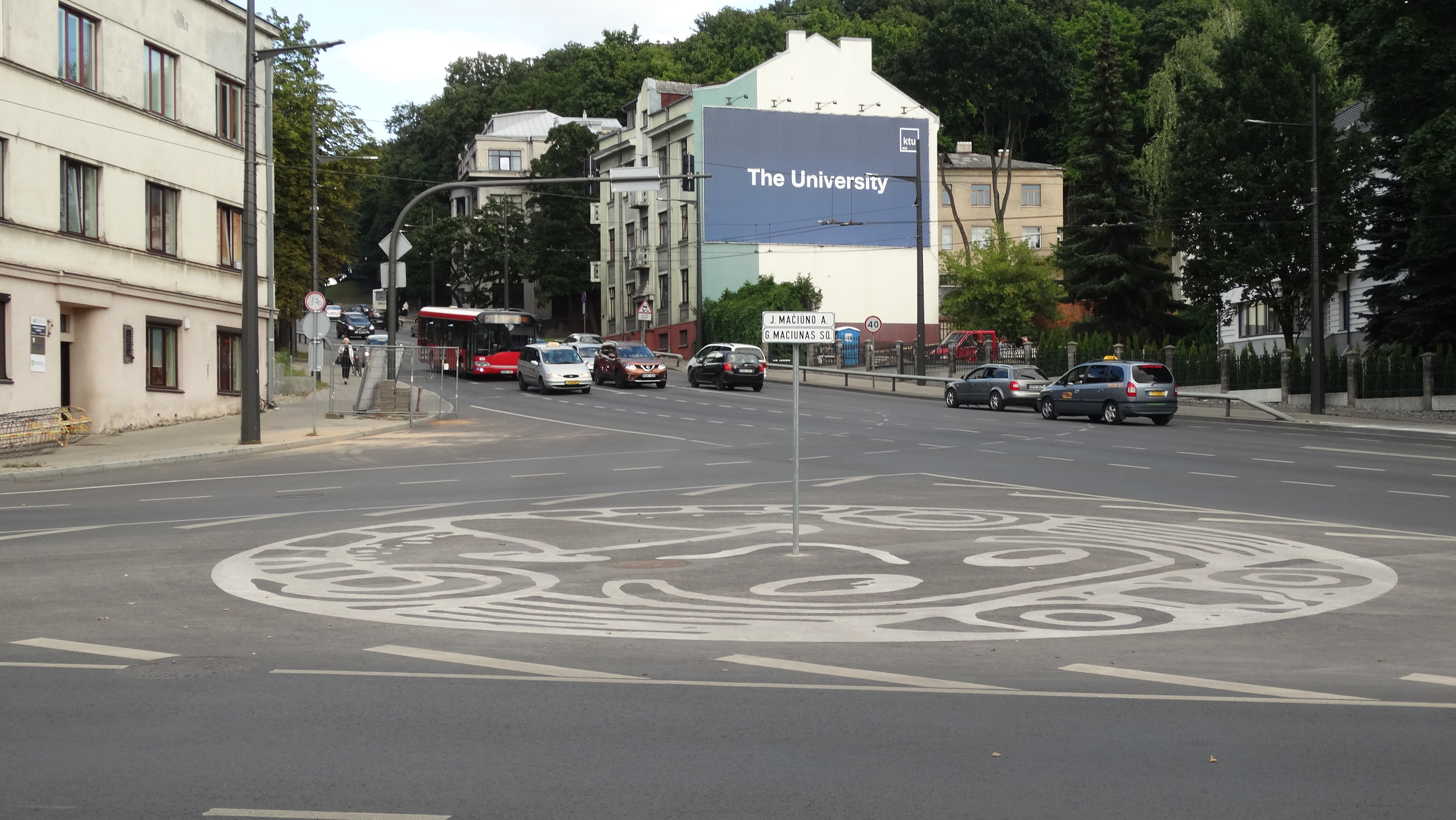 Square named after George Maciunas, Kaunas, Lithuania